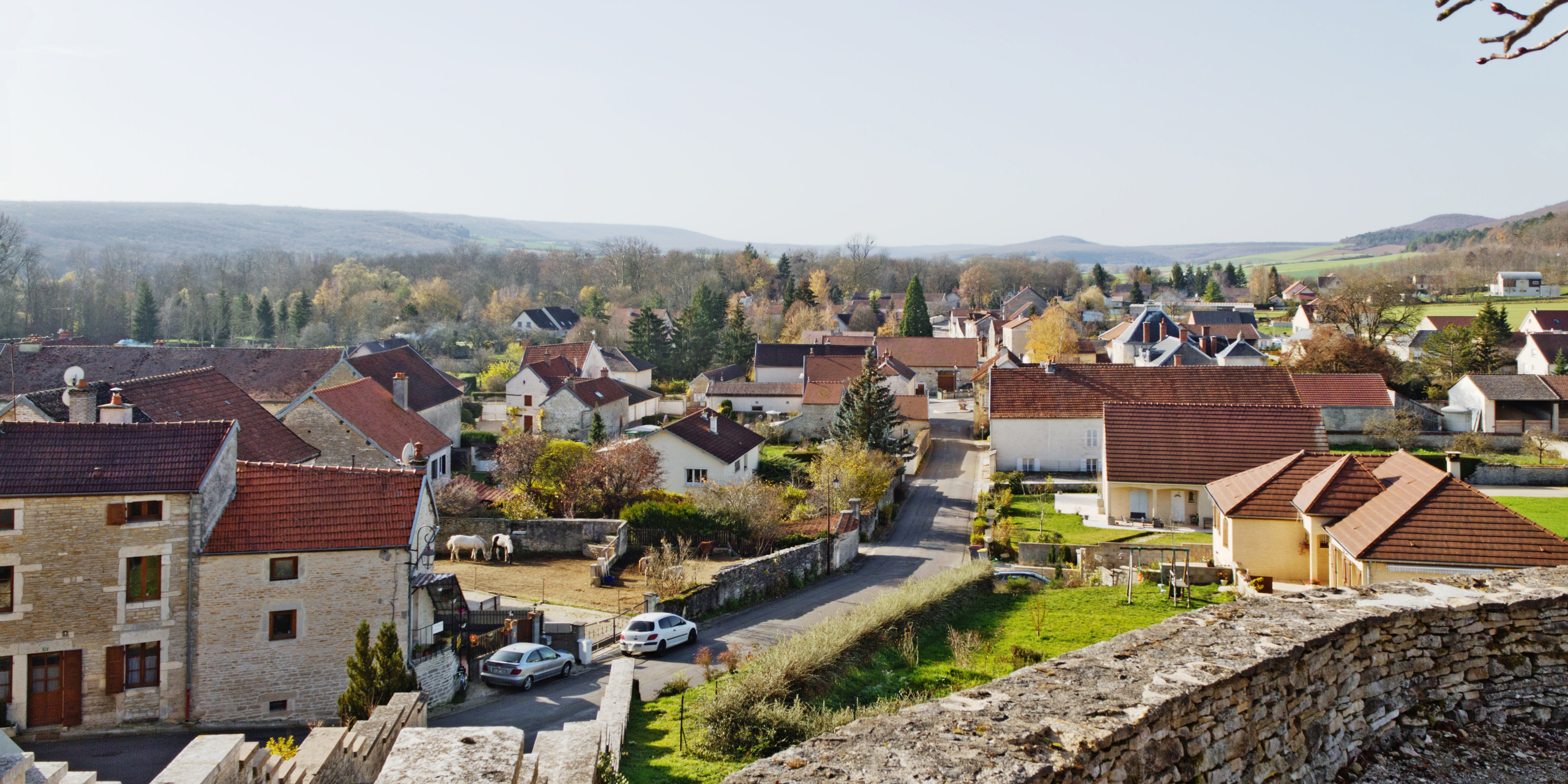 Diénay seeing from the square of is church